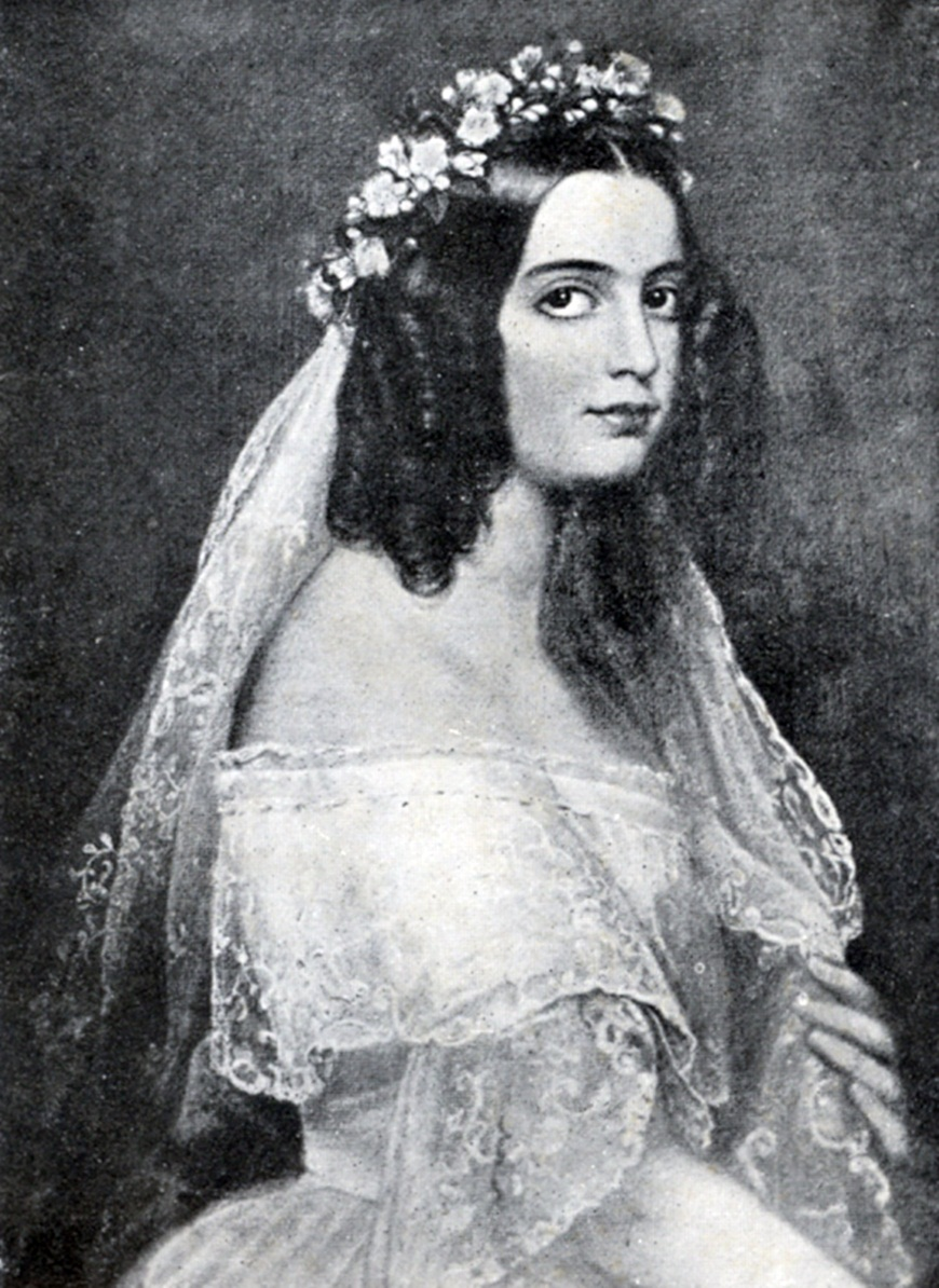 Isabel Maria, Duchess of Goiás, 1843. She was a legitimized daughter of Emperor Dom Pedro I of Brazil. This is a painting located in Bavaria.